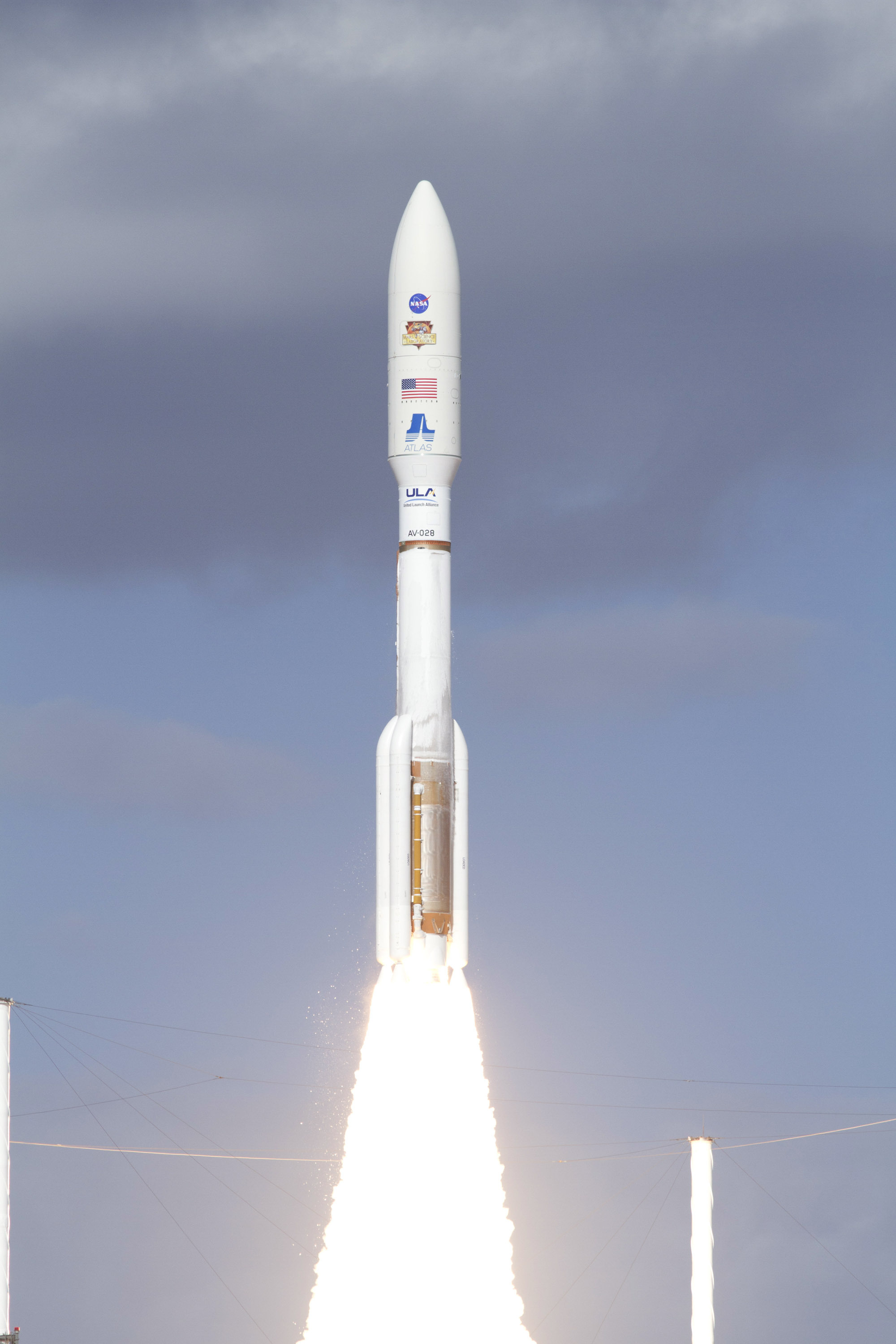 CAPE CANAVERAL, Fla. -- With NASA's Mars Science Laboratory (MSL) spacecraft sealed inside its payload fairing, the United Launch Alliance Atlas V rocket rides a plume of flames as it climbs into the blue sky over Space Launch Complex-41 on Cape Canaveral Air Force Station in Florida at 10:02 a.m. EST Nov. 26. MSL's components include a car-sized rover, Curiosity, which has 10 science instruments designed to search for signs of life, including methane, and help determine if the gas is from a biological or geological source. For more information, visit